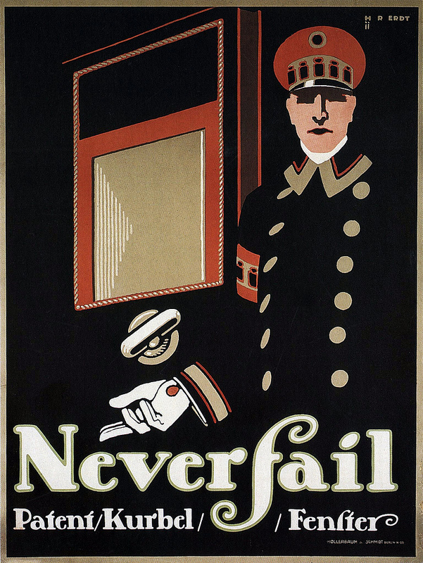 ca. 1911 advertisement poster by Hans Rudi Erdt